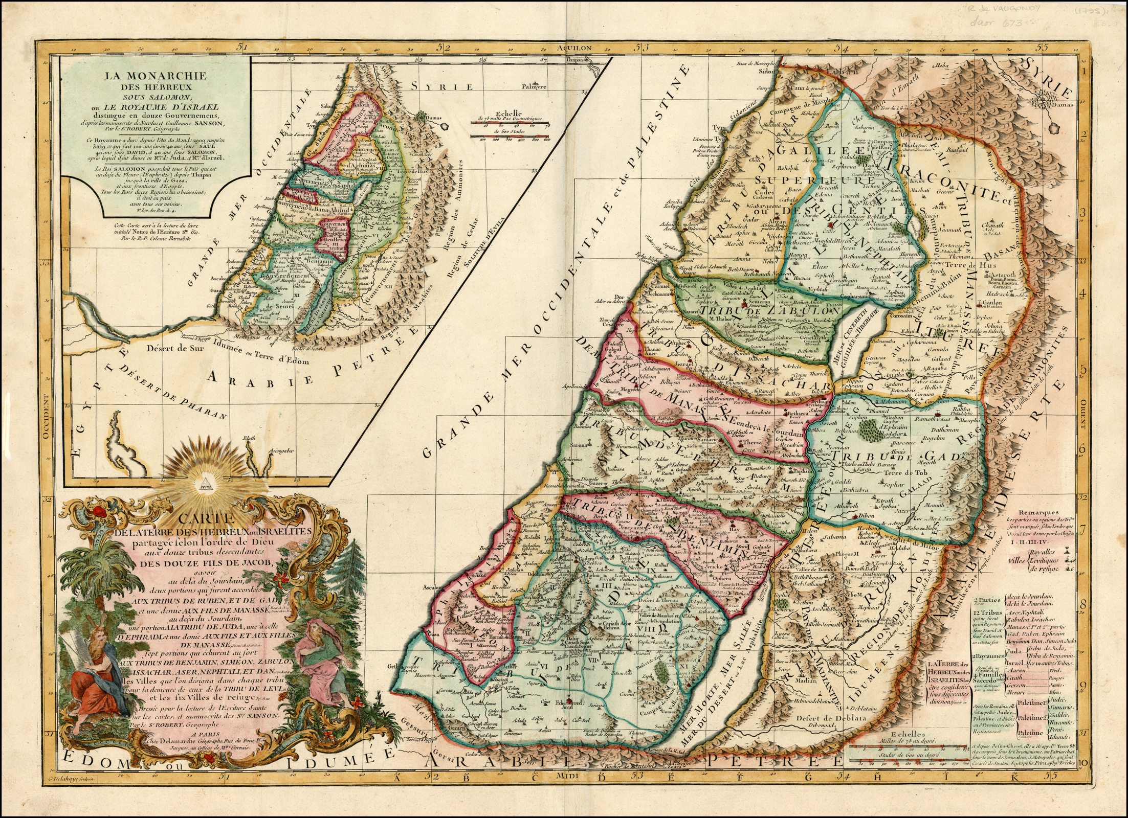 Decorative map of the Holy Land, illustrating the lands controlled by the 12 Tribes descended from the 12 sons of Jacob.